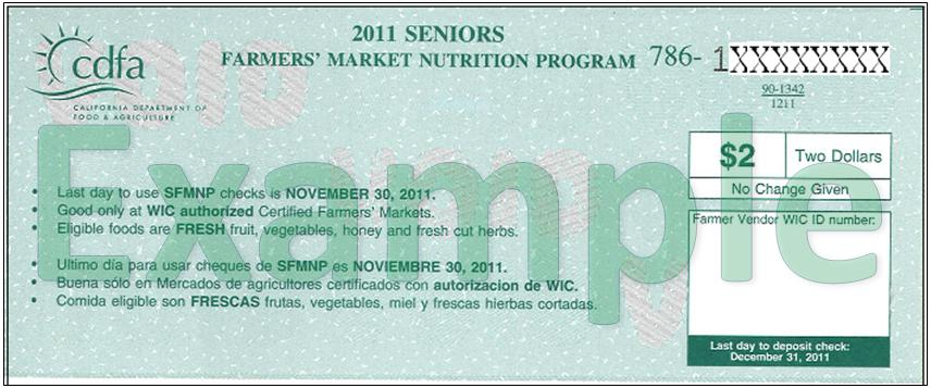 California Senior Farmers' Market Nutrition Program (SFMNP) Example Check